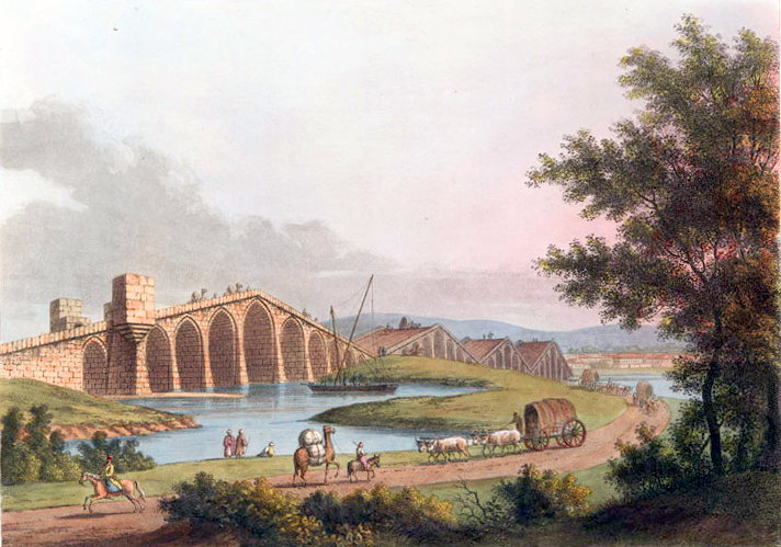 Ponte grande in: Views in the Ottoman Dominions, in Europe, in Asia, and some of the Mediterranean islands, from the original drawings taken for Sir Robert Ainslie, by Luigi Mayer.